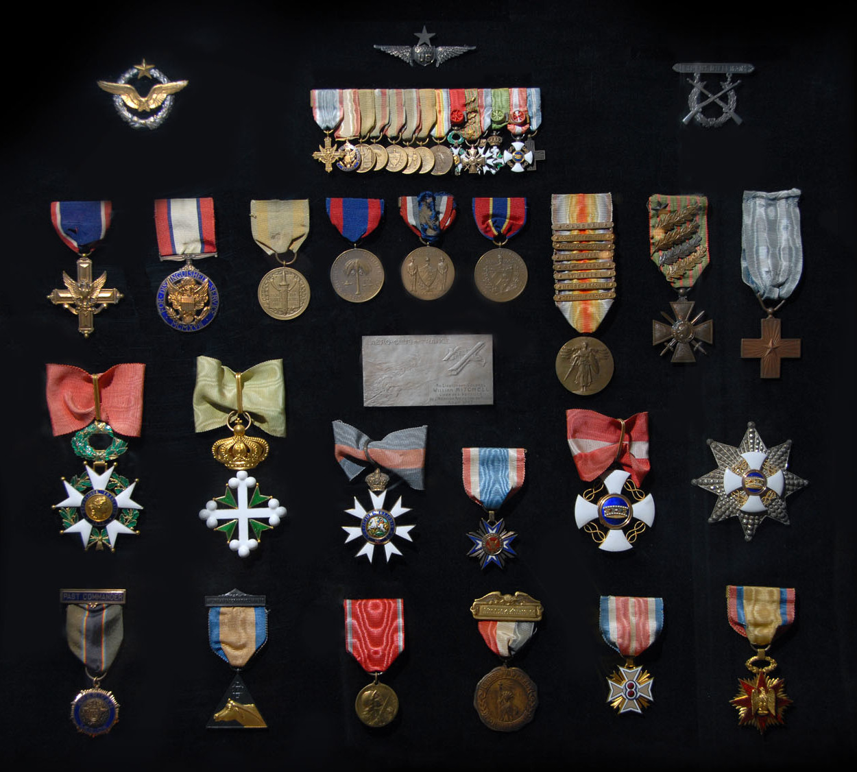 DAYTON, Ohio -- Gen. Billy Mitchell uniforms and medals on display in the National Museum of the United States Air Force Early Years Gallery. (U.S. Air Force photo)